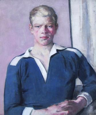 Francis Cadell: The Rugby Player; Oil on canvas; 30 x 25 inches